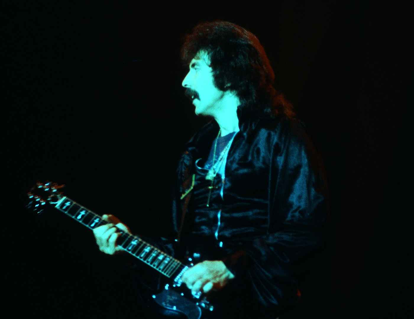 Tony Iommi of Black Sabbath playing at the New Haven Coliseum in 1978.